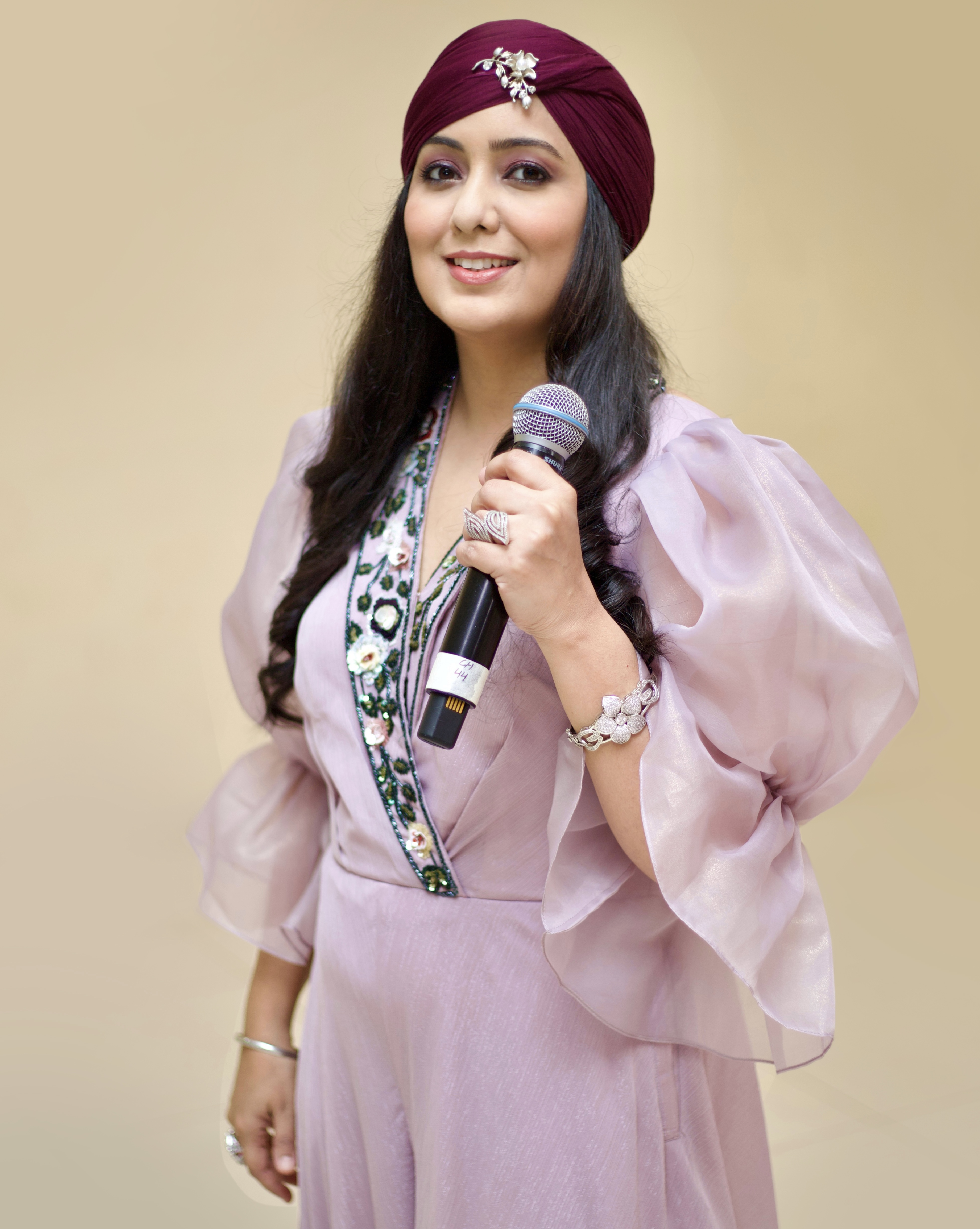 Harshdeep Kaur, popular playback singer.